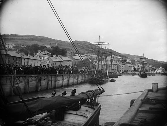 1 negative : glass, dry plate, b&w ; 16.5 x 21.5 cm.